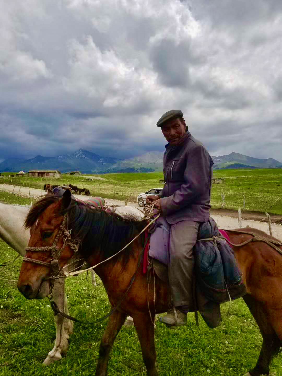 The Kazakh herdman is riding a horse.